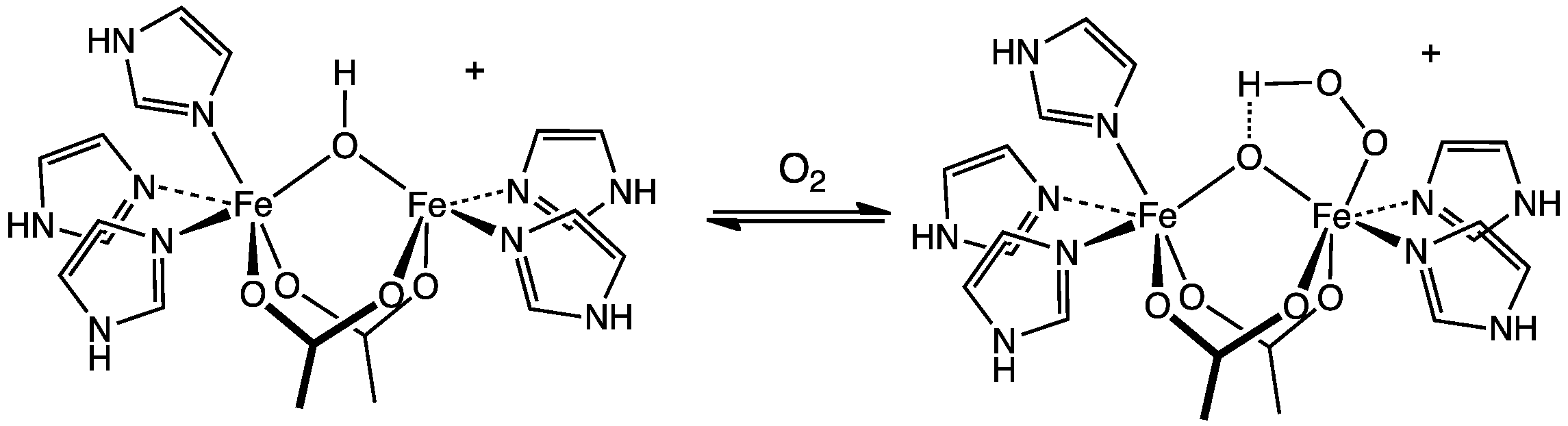 equilibrium for O2 binding to the active site